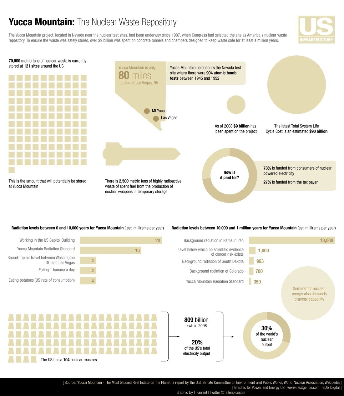 Earlier in the year 2010, plans to store America's nuclear waste inside one of America's most challenging engineering feats, Yucca Mountain, were scrapped due to a lack of federal funding. The Yucca Mountain project, located in Nevada near the nuclear test sites, had been underway since 1987, when Congress had selected the site as America's nuclear waste repository. To ensure the waste was safely stored, over $9 billion was spent on concrete tunnels and chambers designed to keep waste safe for at least a million years.